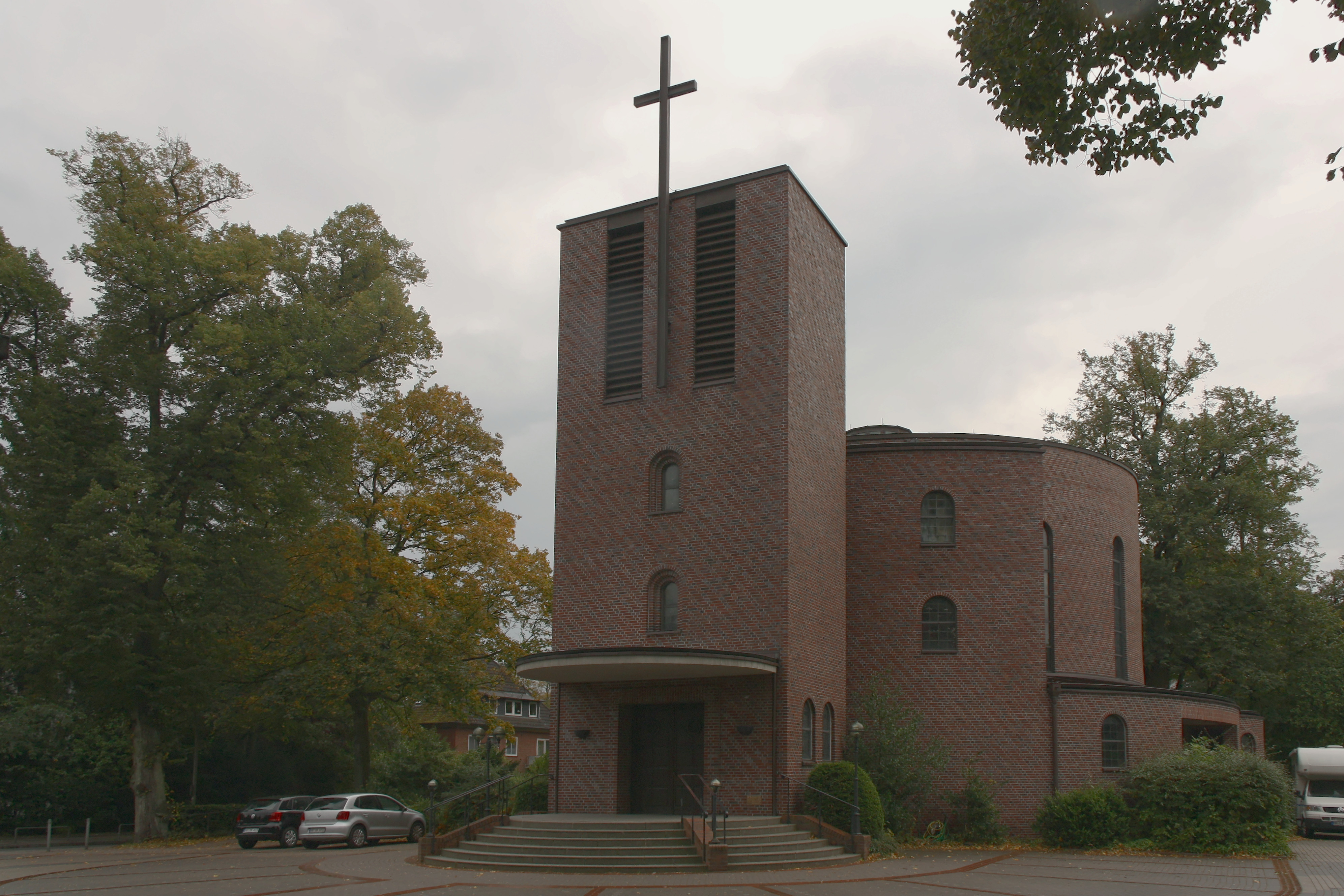 Church Maria Grün (St. Mary in the Green) in Hamburg-Blankenese, view from the north